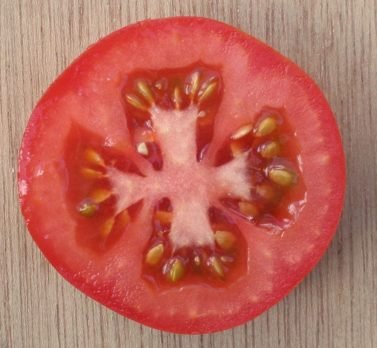 Sliced tomato.